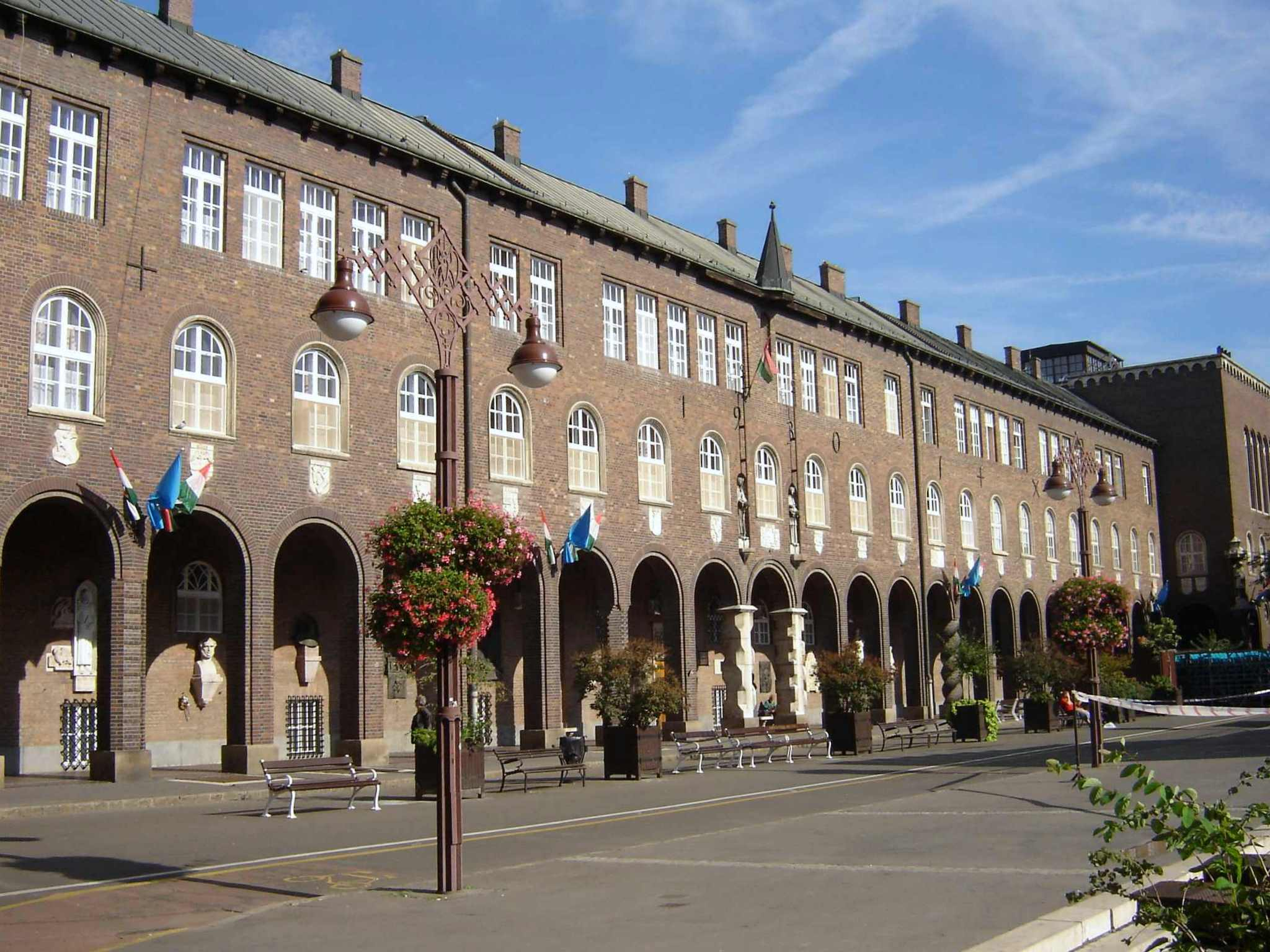 Szeged, square of Dóm from west side